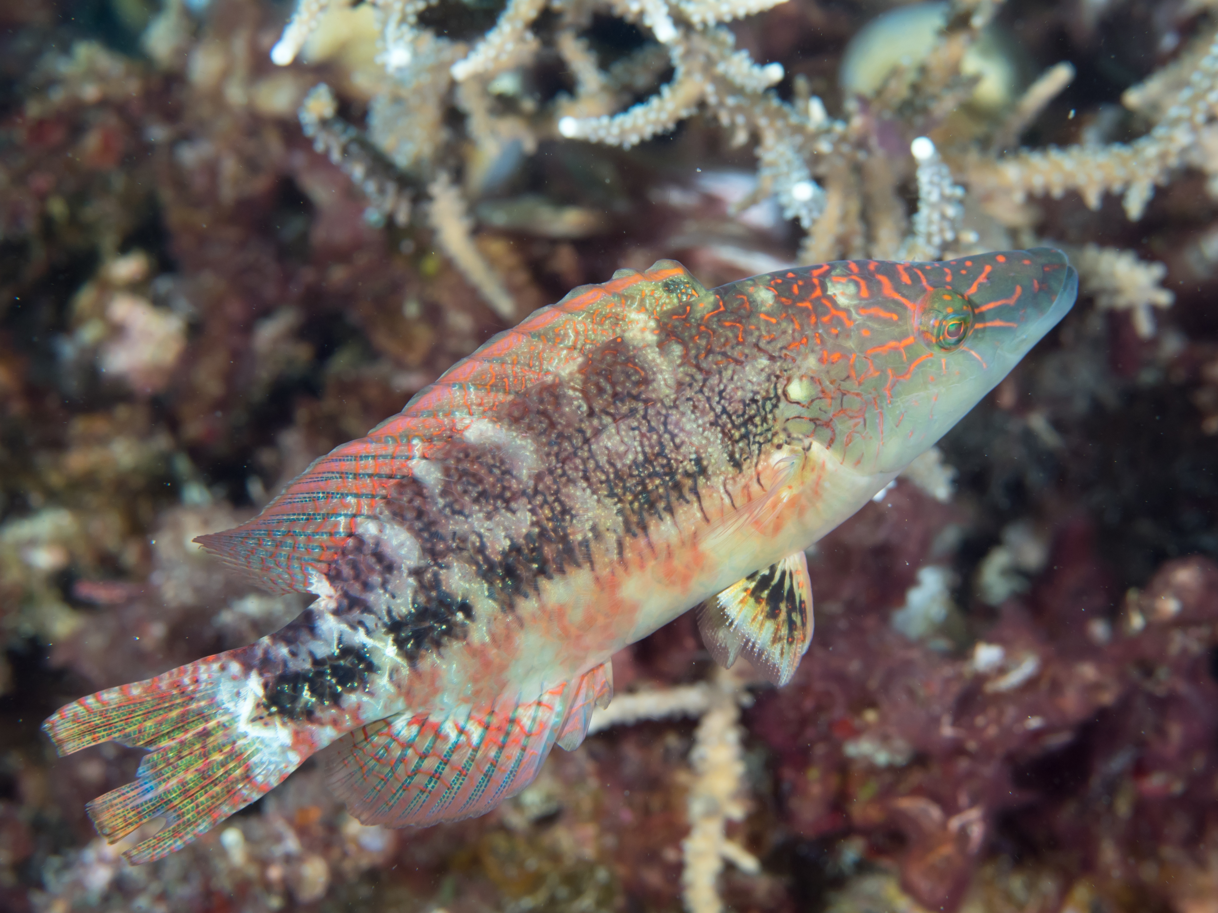 Celebes wrasse (Oxycheilinus celebicus). Raja Ampat